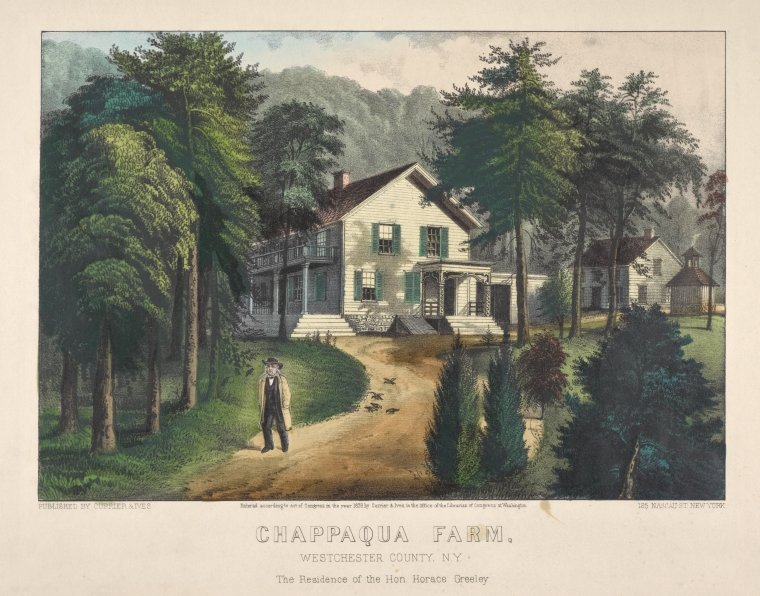 Lithograph of "Chappaqua Farm, Westchester County, N.Y., The Residence of Hon. Horace Greeley," published by Currier & Ives, 125 Nassau Street, circa 1870. Courtesy of the New York Public Library Digital Collection.